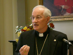 Picture of Marc Cardinal Ouellet taken in the Spring of 2008.